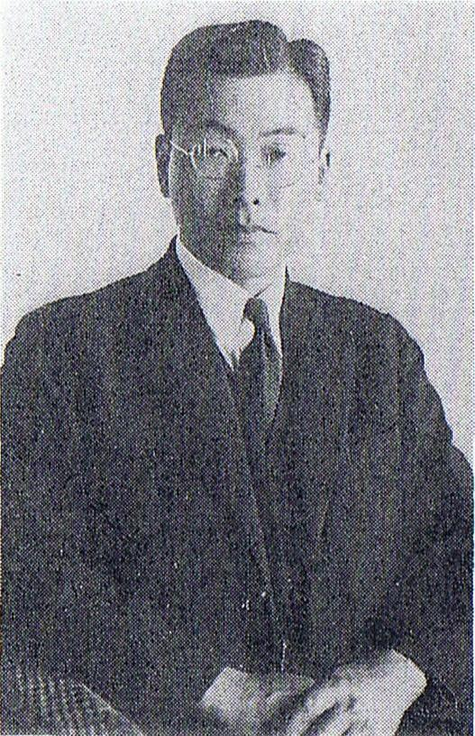 Rev.TOKIWA Takaoki